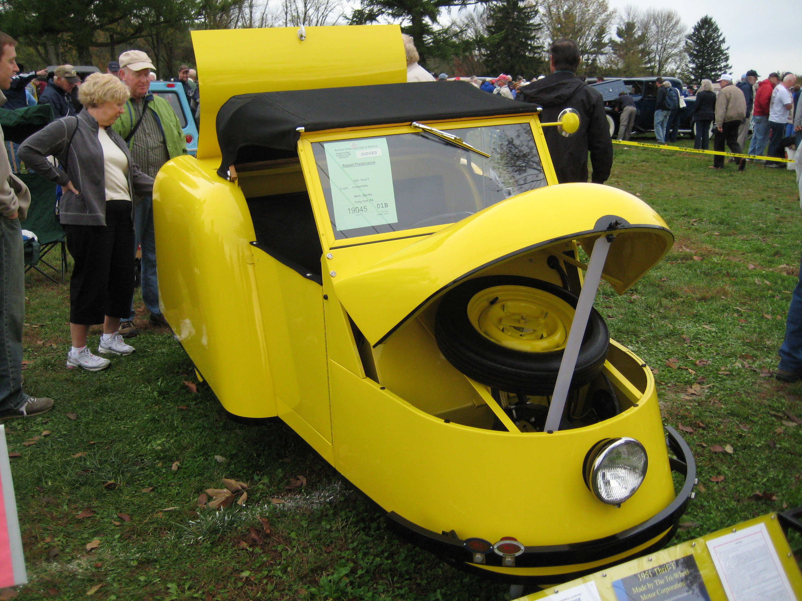 The Thrift-T was designed by the Tri-Wheel Corp of Oxford, North Carolina. (USA) and was manufactured by the Tri-Wheel Motor Corp, Springfield, Mass. (USA) from 1948. The original vehicle was designed as a three seater for commuting though by 1955 the Thrift-T was also available with a pick up body, an enclosed delivery van and an open top utility vehicle that could seat up to five people with additional room for luggage. powered by an Onan twin engine and has a Crosley drivetrain with a 3 or 4 speed gearbox. The body is made from steel. Seen at the judged car show, AACA Eastern Region Fall Meet, Hershey, Pennsylvania, October 2009